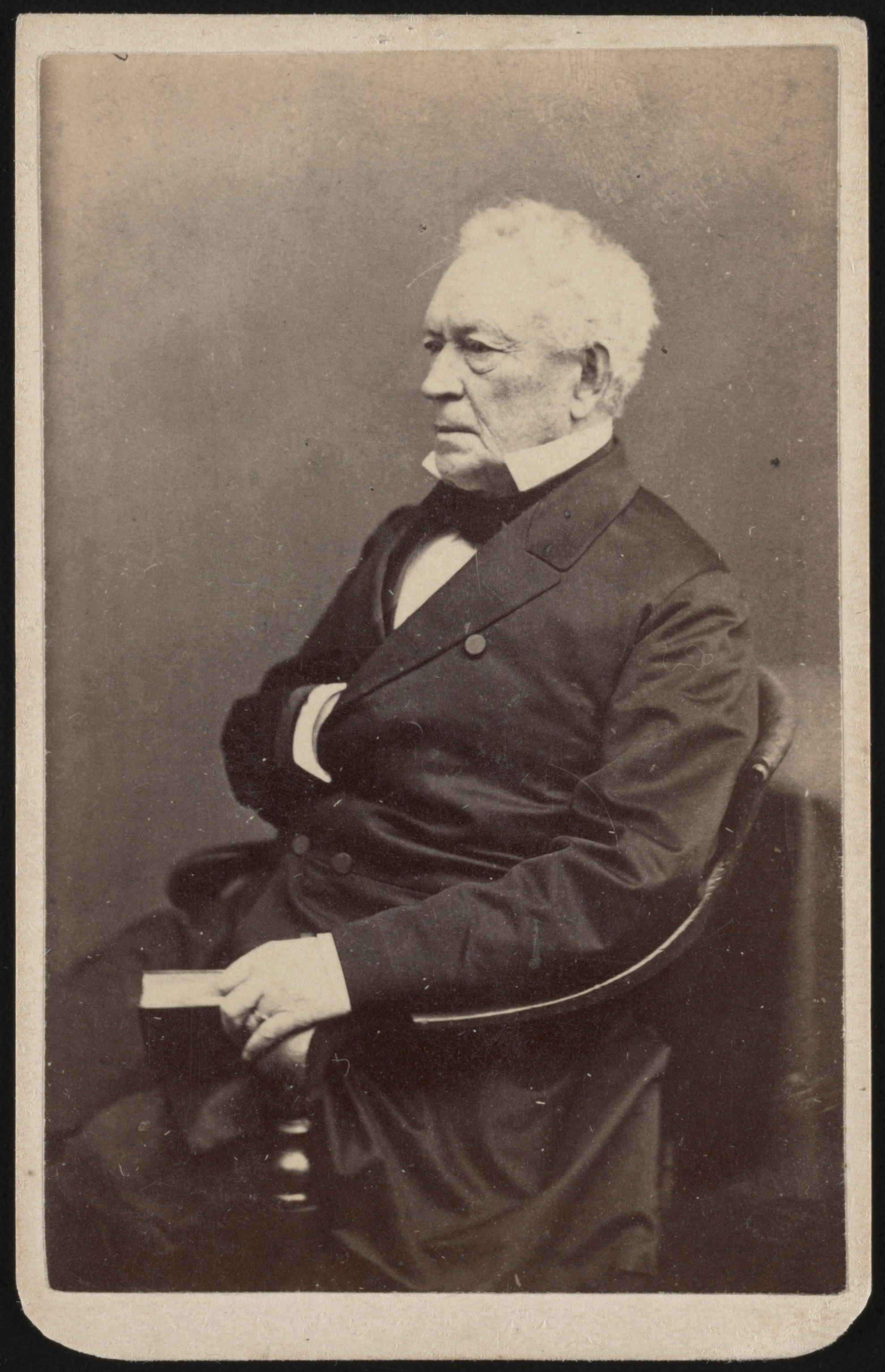 Title: Edward Everett, politician, orator, and president of Harvard University] / J.W. Black, 173 Washington St., Boston Abstract/medium: 1 photograph : albumen print on card mount ; mount 10 x 6 cm (carte de visite format)